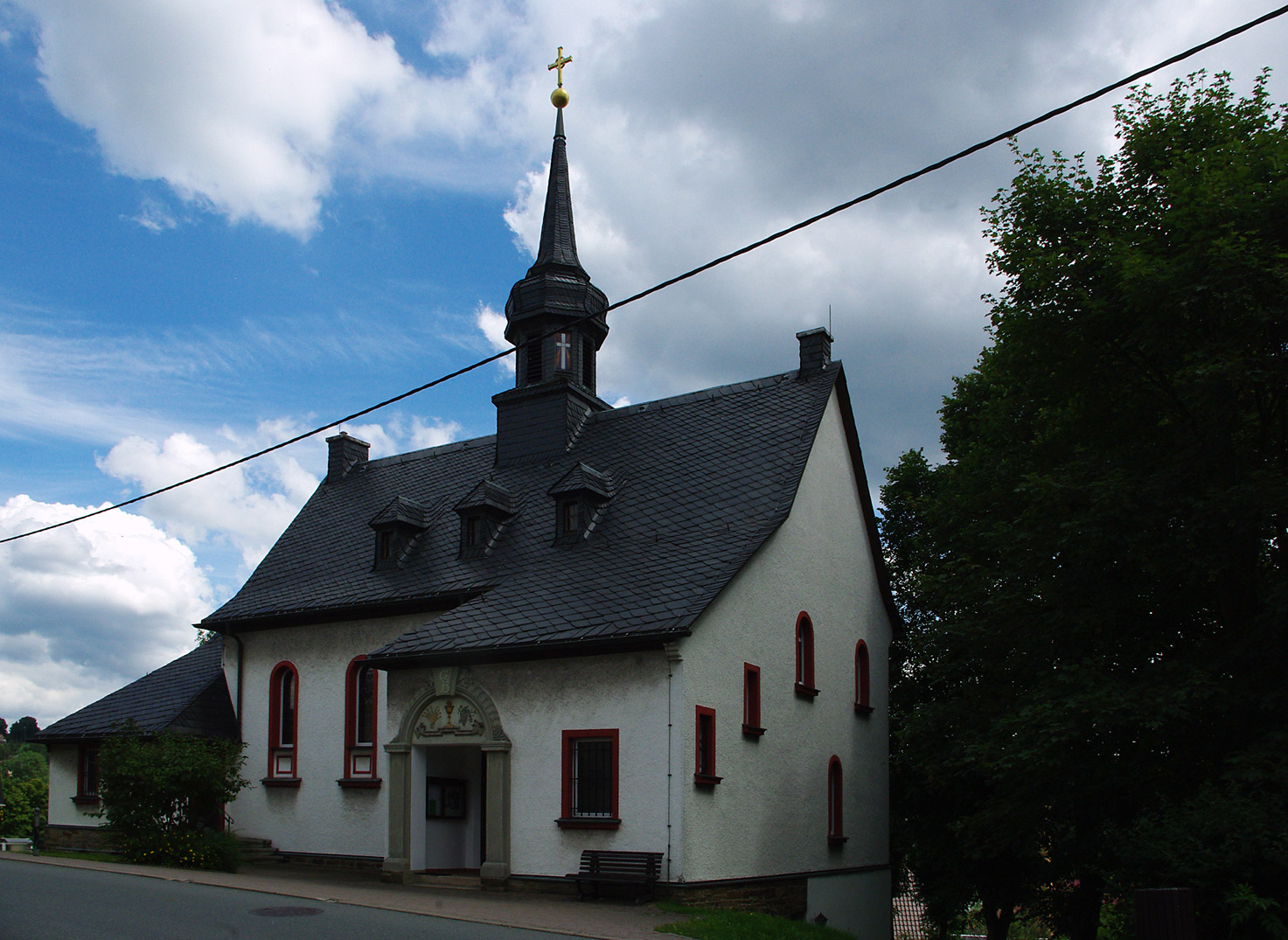 Catholic Church St. Bonifatius, Baerenstein (Erzgebirge, Saxony, Germany)